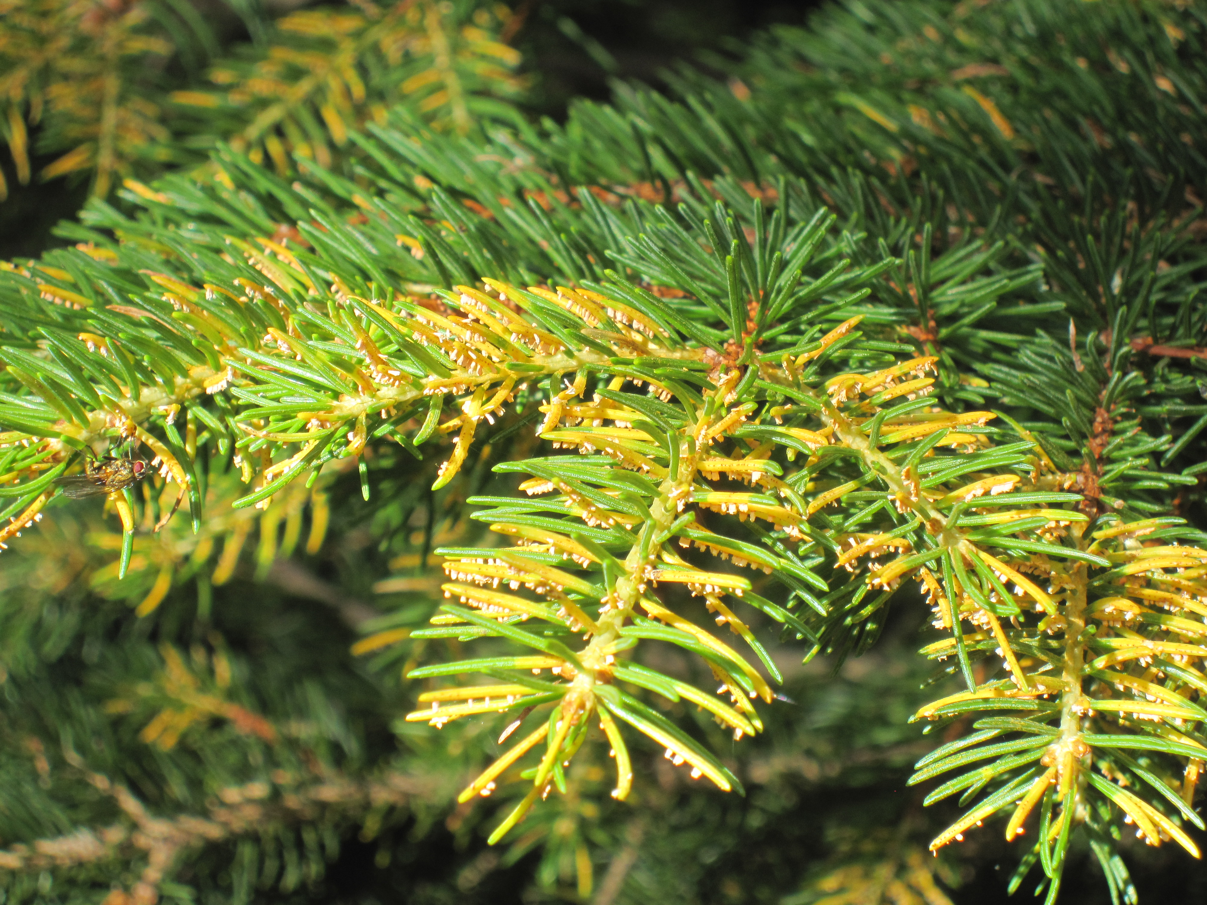 Chrysomyxa rhododendri on Picea abies